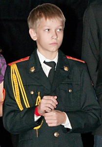 Russian actor Alexey Kopashov. At the «Brest Fortress» premiere in Moscow, November 3, 2010.